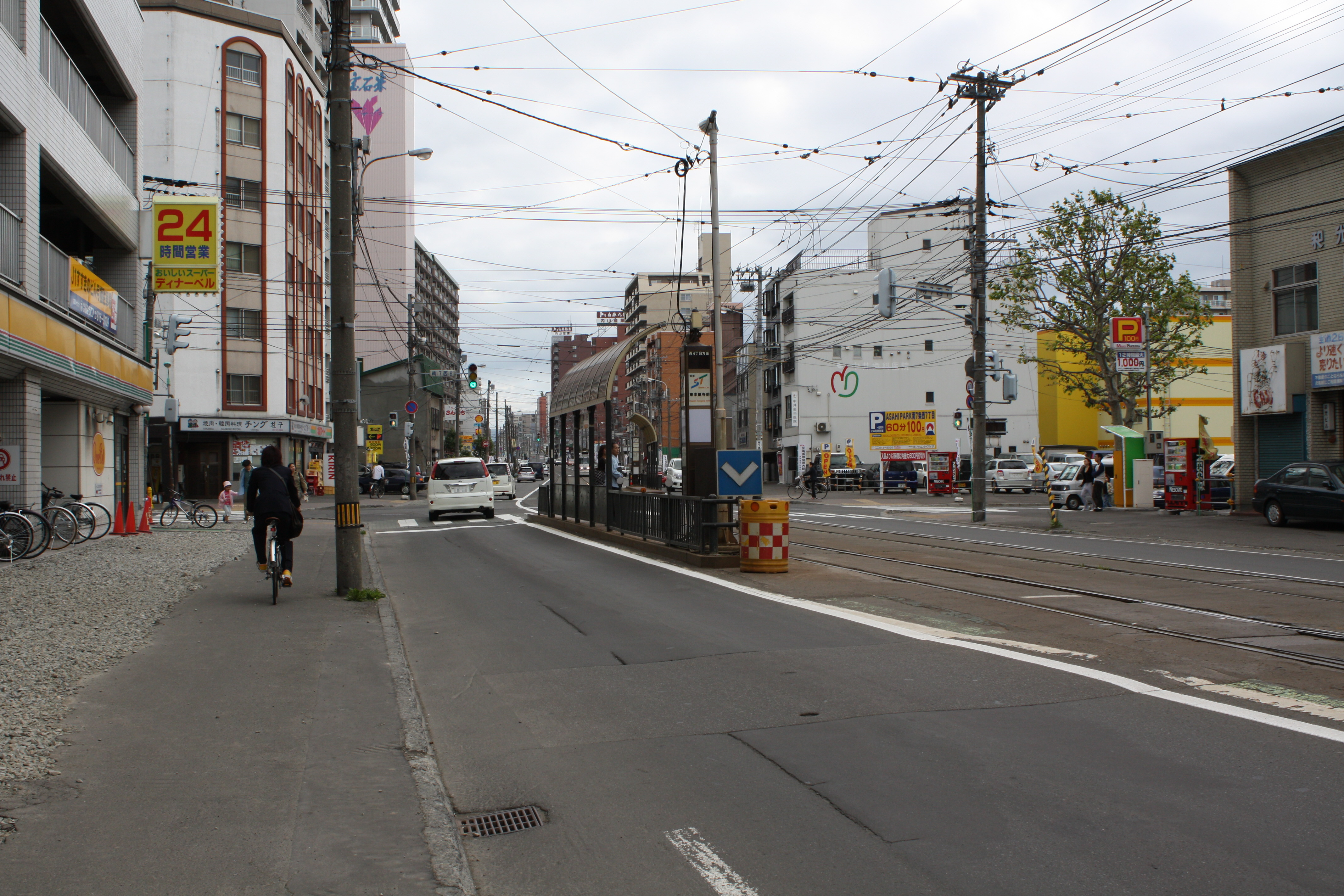 Higashi honganji mae Station in Sapporo, Hokkaido, Japan. It is the station on the Sapporo Streetcar Yamahana Line operated by Sapporo City Transportation Bureau.